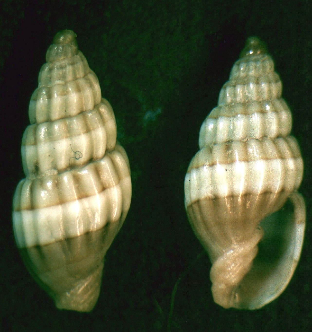 Austromitra analogica tatei Angas, 1879, a ribbed miter from the family Costellariidae; Southern Australia